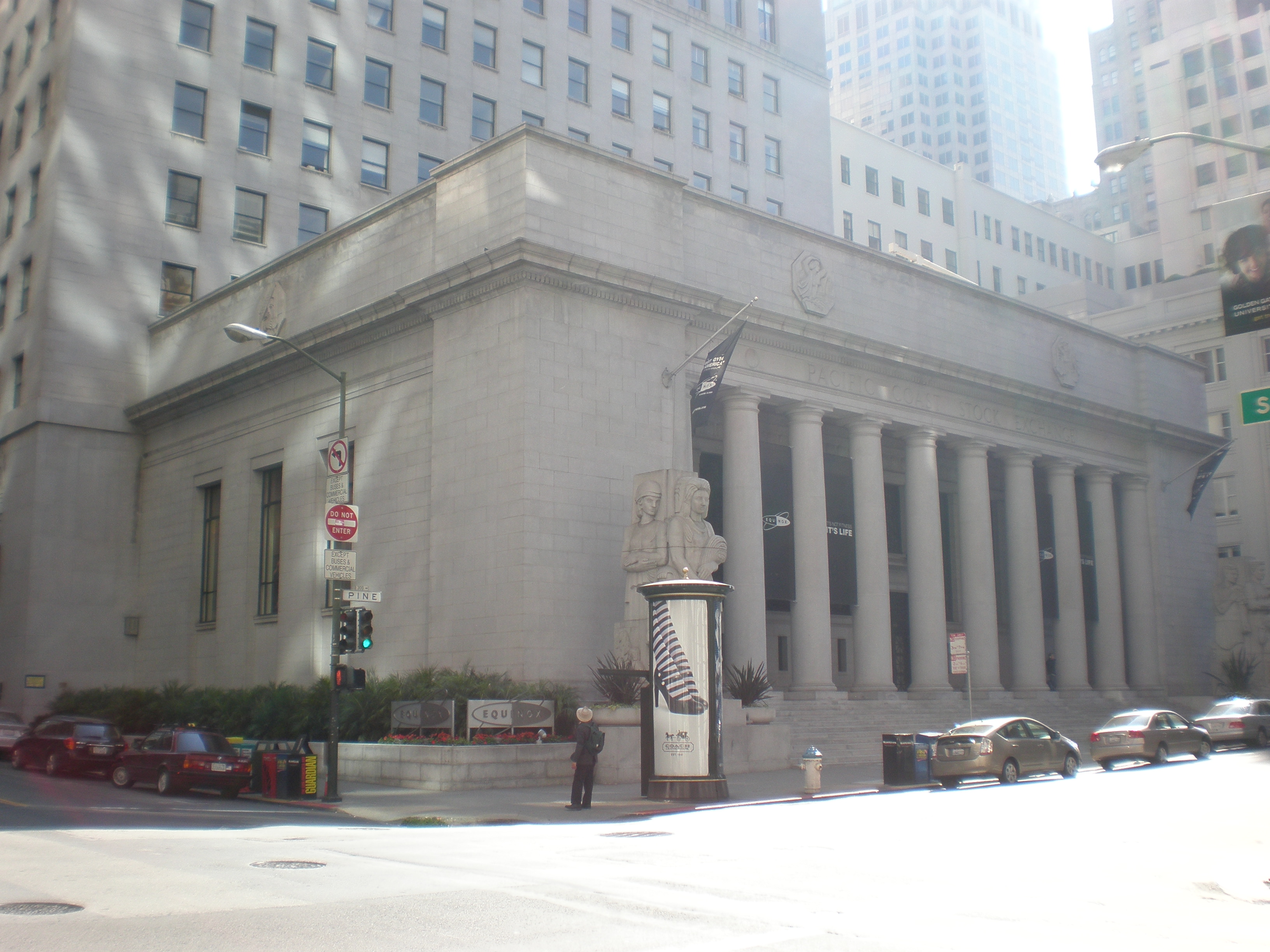 The Pacific Coast Stock Exchange building in San Francisco, now owned by Equinox Fitness.